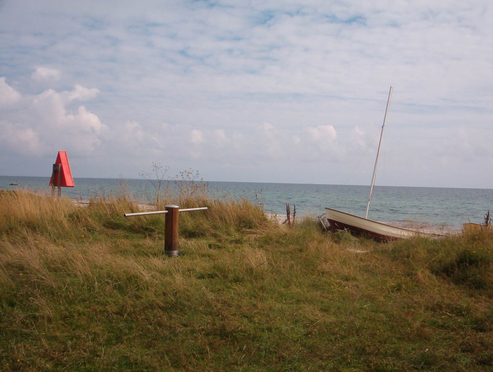 Mechanism for pulling boats on the beach Source: Photo taken by Bruger:Palnatoke